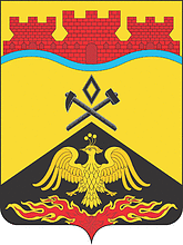 Coat of arms of Shakhty town in Rostov Region on Russia